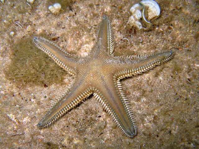 Astropecten platyacanthus